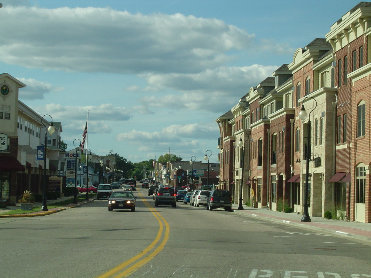 Downtown